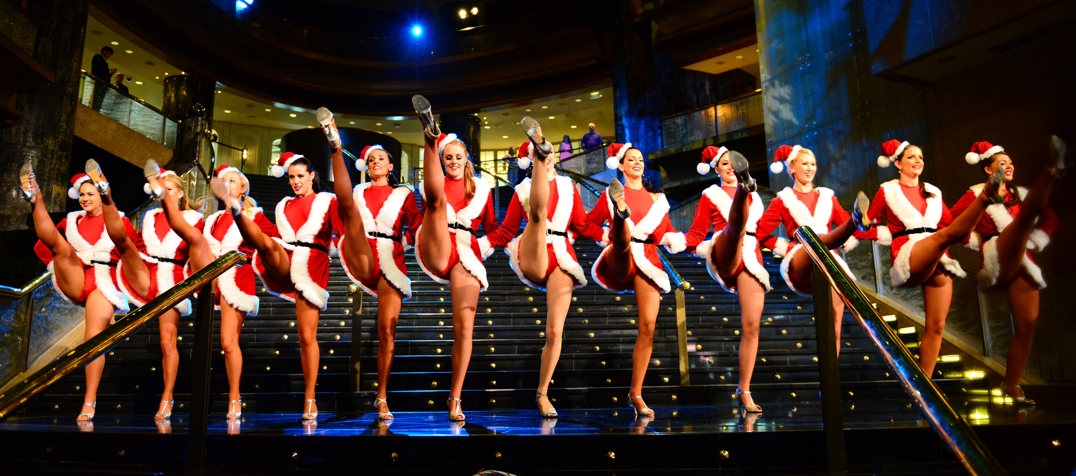 Up until Christmas Eve, the Christmas Belles are performing at the Crown atrium, every day on the hour between 3pm through to 6pm. It is a well choreographed 15 minute routine that uses the stairs quite effectively as part of the performance. Throughout the performance, the lights changes between green, blue and white hence why some of my other pictures look different.